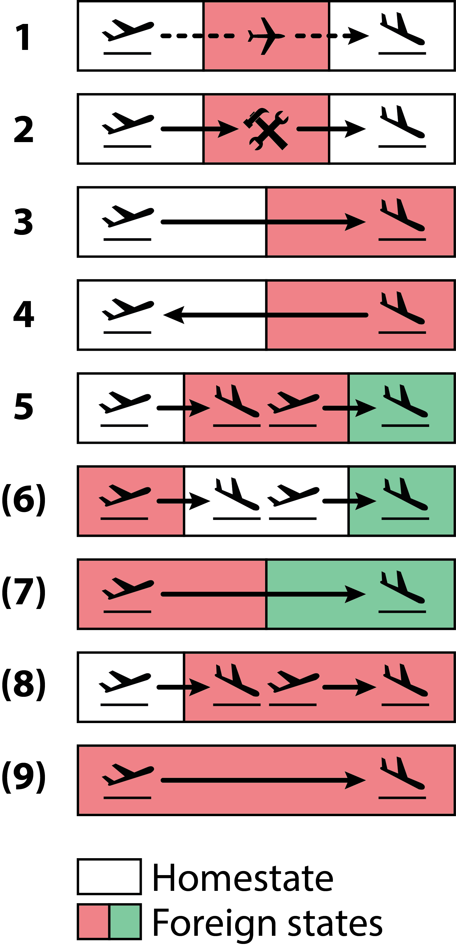 The Freedoms of the Air.